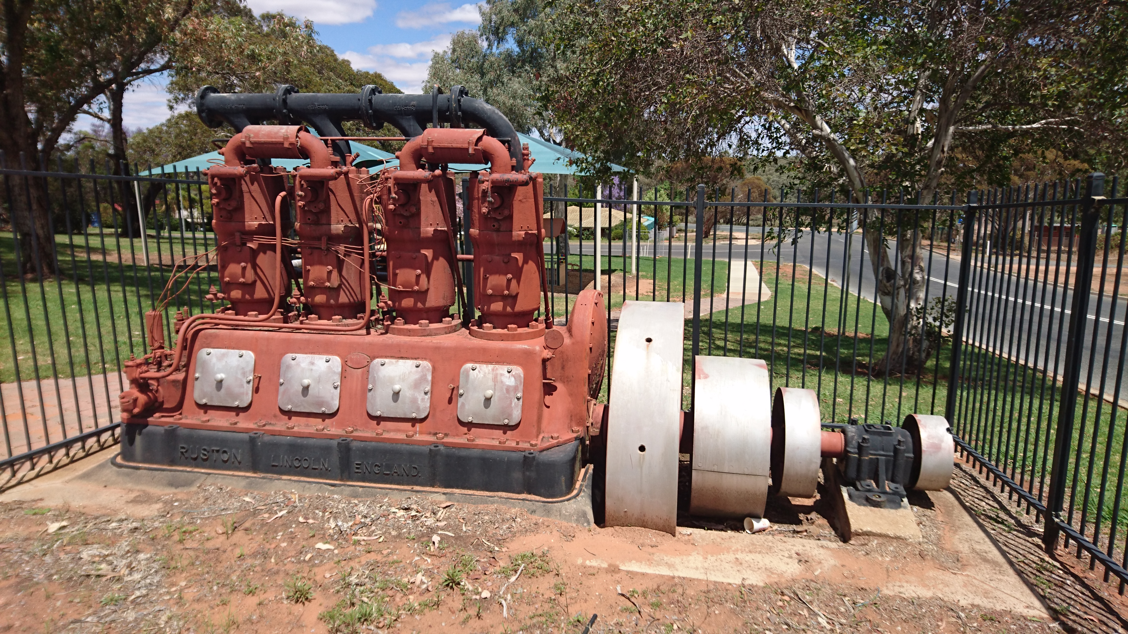 Rushton 4cyl oil-diesel engine, at Dareton, New South Wales (Wentworth Region). This ran an irrigation pump to draw water from the Murray River for the Coomealla Irrigation Area. It is now an exhibit in a park in the town.